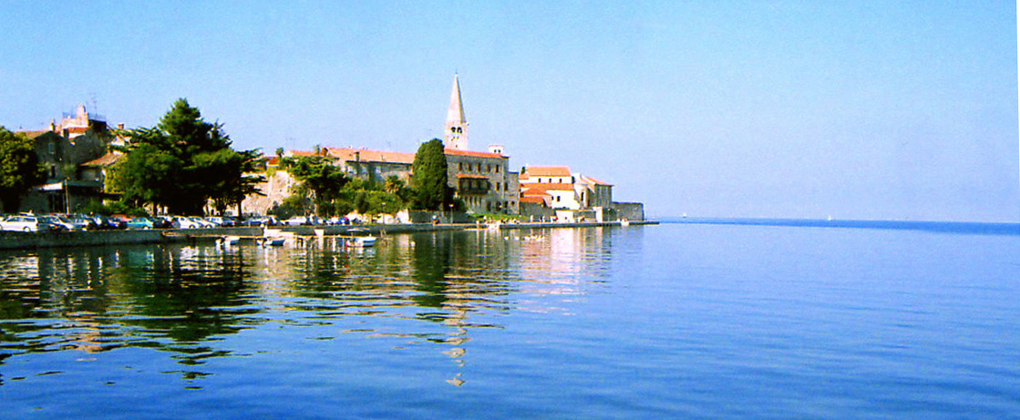 Porec panorama